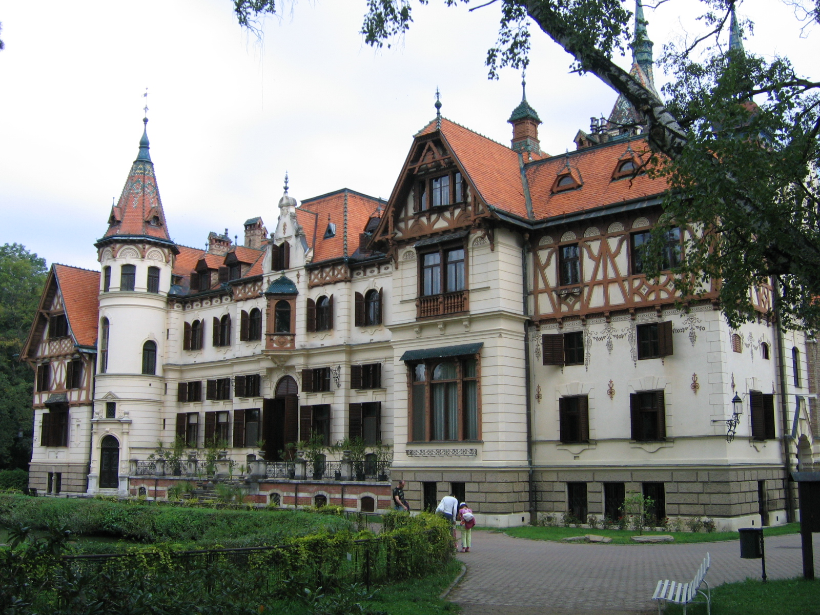 Castle Lešná near Zlín, Czech Republic, september 2006